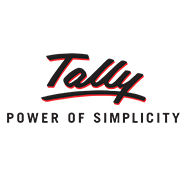 Tally.ERP 9 official logo